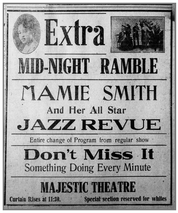 Ad for special Late Show for Mamie Smith and Her All Star Jazz Revue at the Majestic Theatre in Montgomery, Alabama. Note: Earlier ads listed the Jazz Hounds. The Majestic Theatre at this time was a "colored" theatre, but added a "special section reserved for whites."